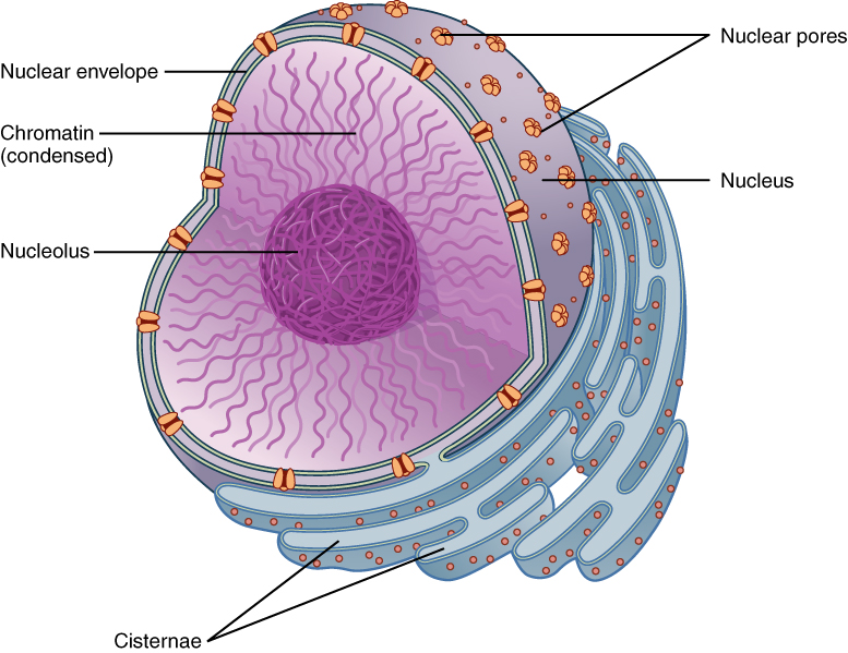 Version 8.25 from the Textbook OpenStax Anatomy and Physiology Published May 18, 2016